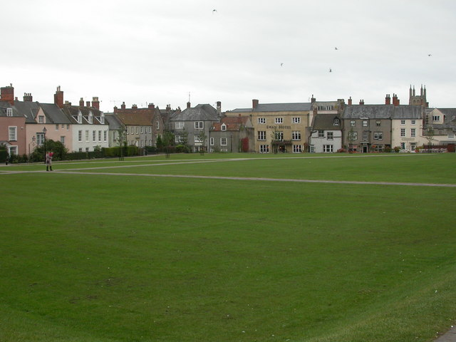 Wells, Cathedral Green Within the cathedral close, once a graveyard; for future plans